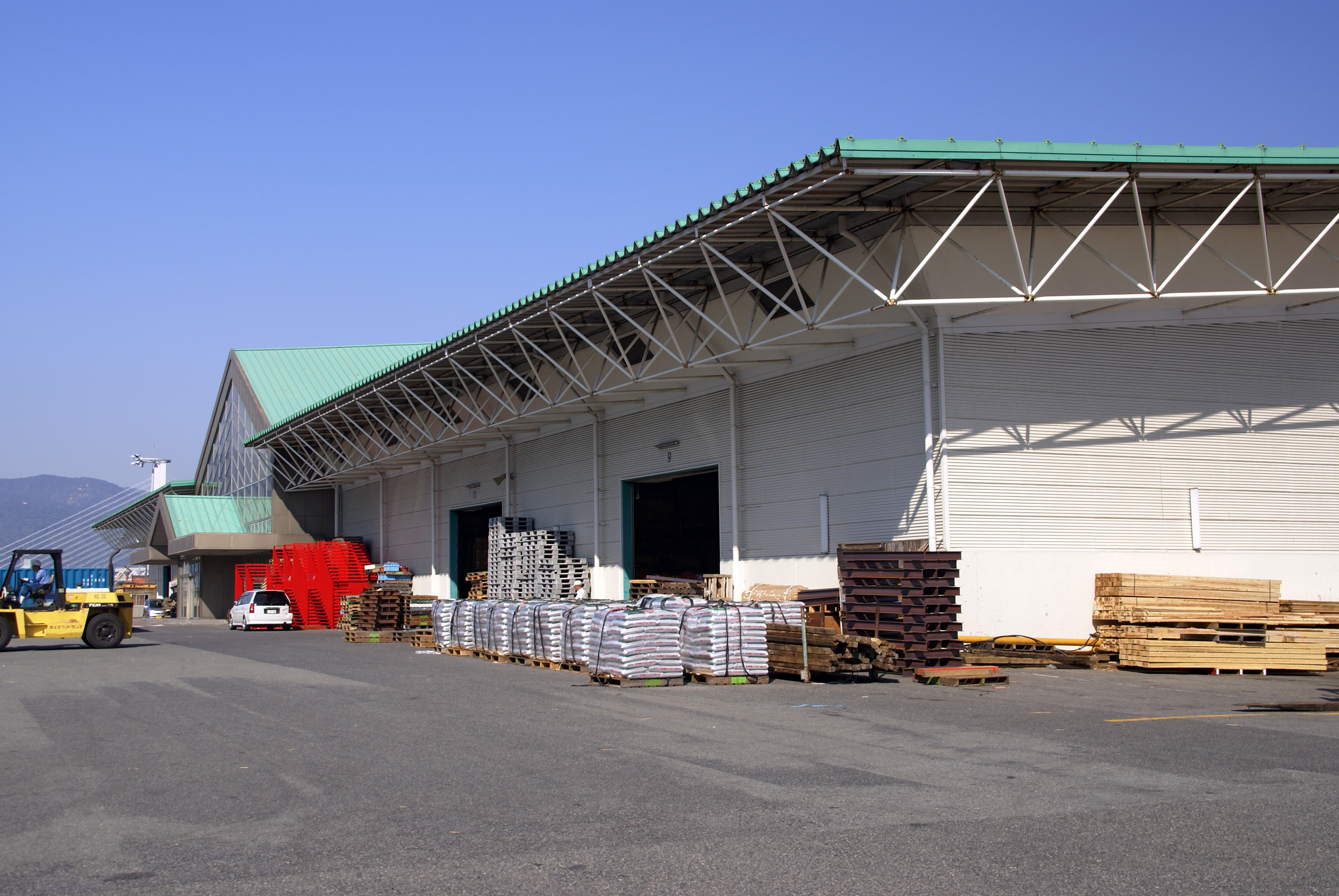 Rokko Passenger Ship Terminal of the Kobe harbor ( Kobe, Hyogo, Japan )